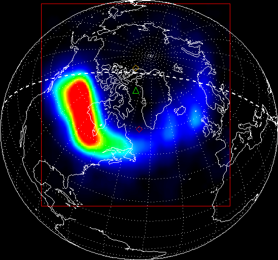 False color image of an x-ray Aurora borealis following a solar storm recorded with the Polar Ionospheric X-ray Imaging Experiment (PIXIE) onboard NASA's orbiting POLAR spacecraft with overlaid map